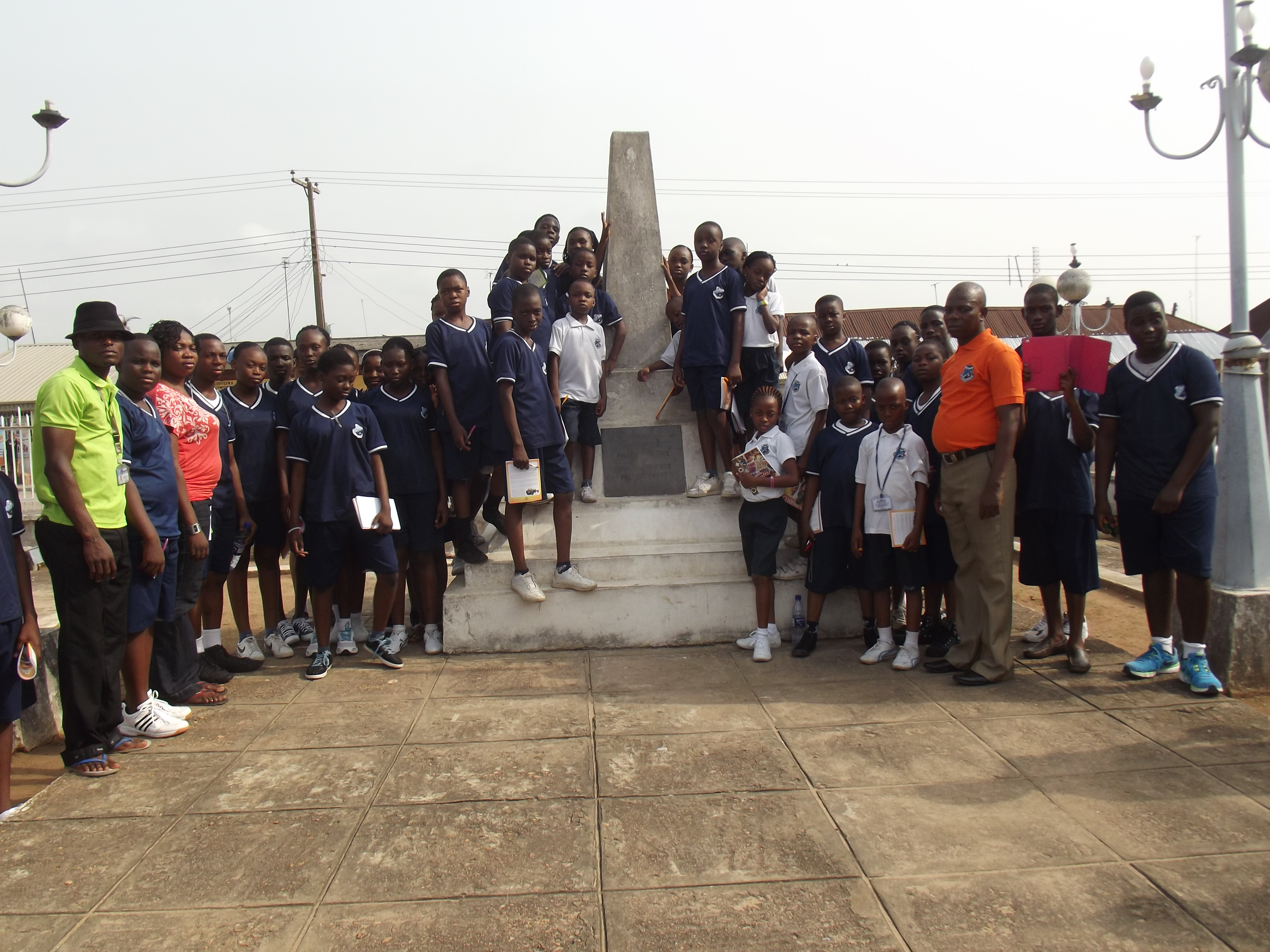 This was where Christ was first preached in Nigeria. This is an image of Cultural Fashion or Adornment from Nigeria